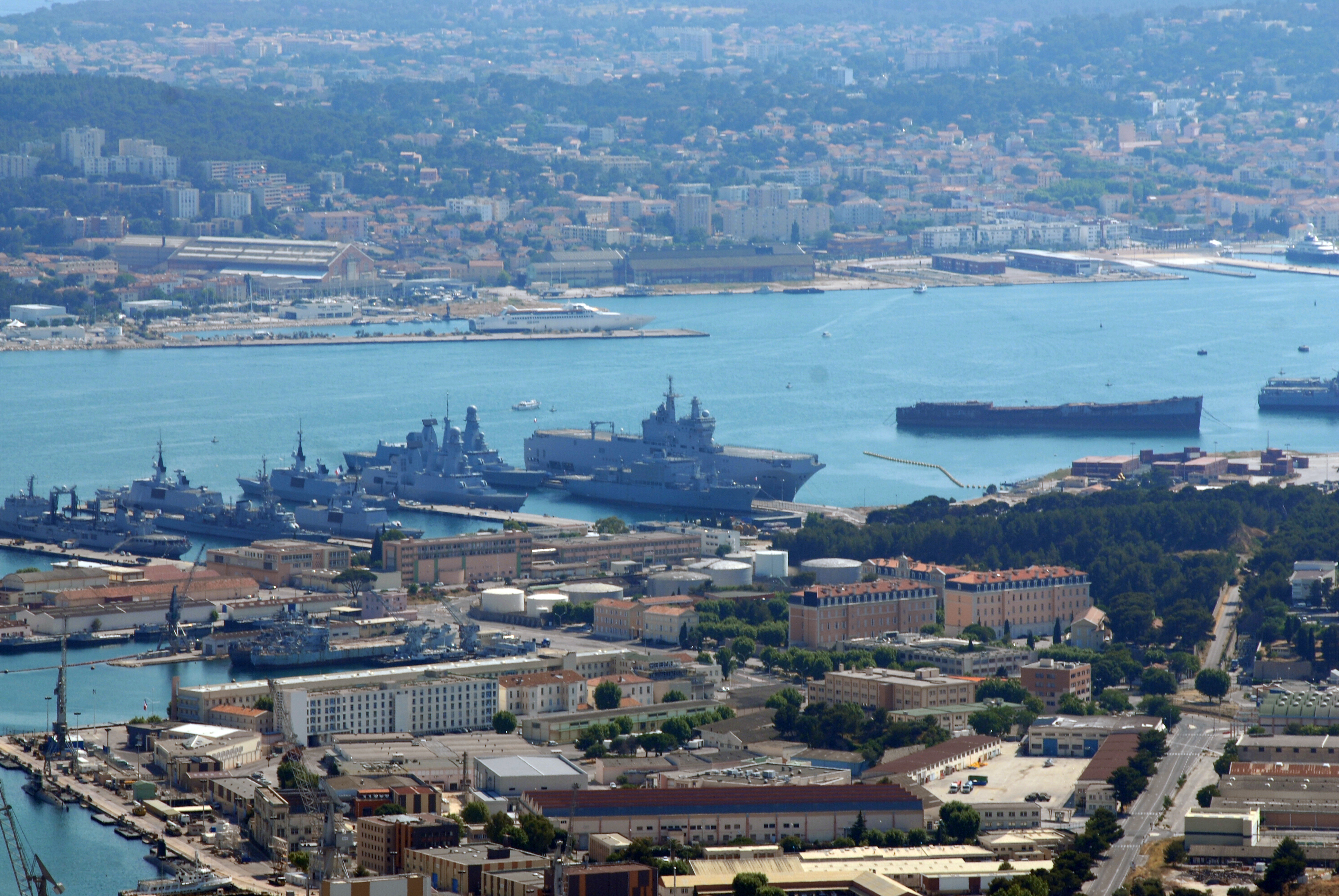 Photos of the military port of Toulon